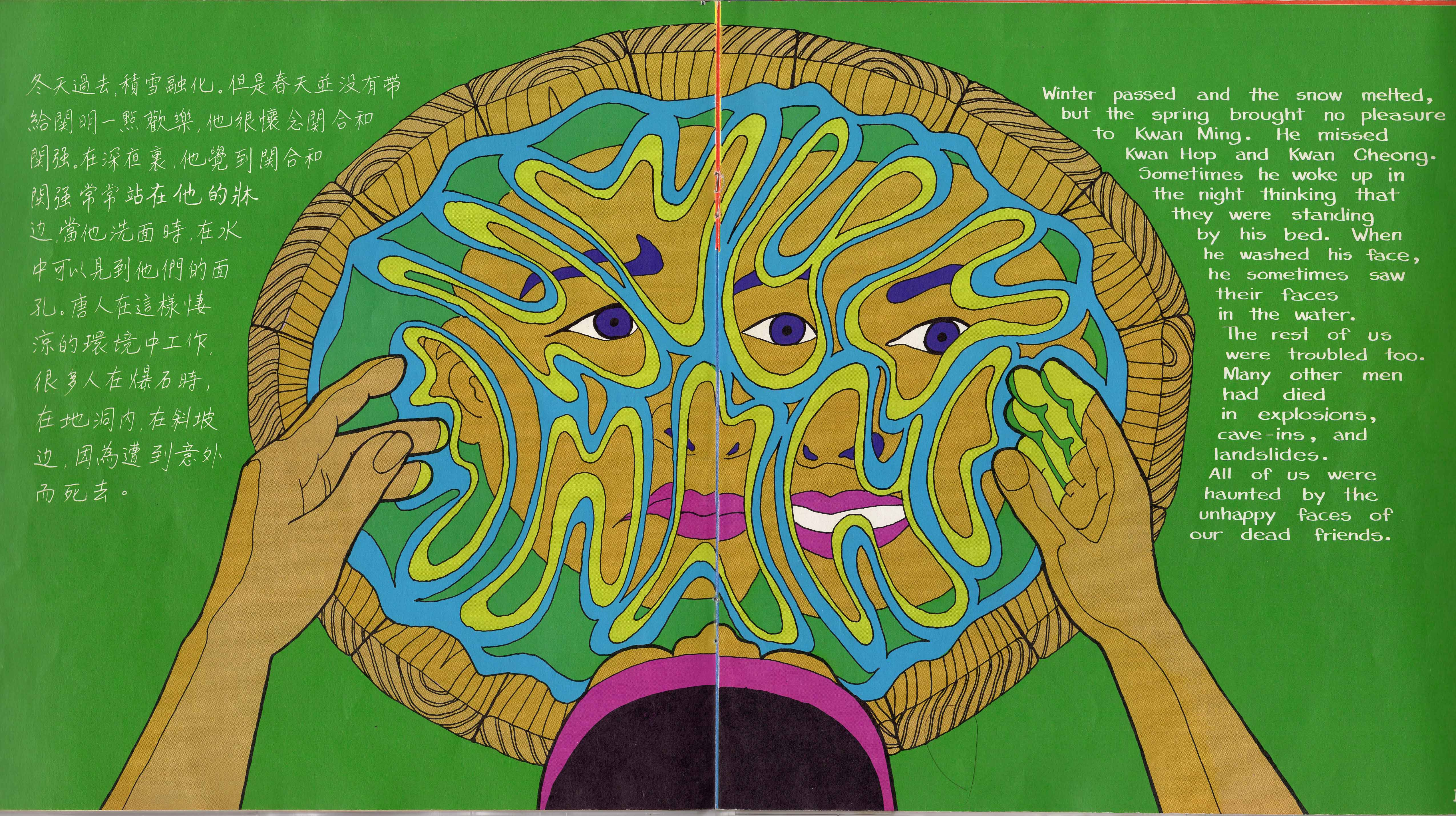 The Iron Moonhunter (追月號), written and illustrated by Kathleen Chang; translated into Chinese by Chiu-Chung Liao; published in 1977 by Children's Book Press: San Francisco (ISBN 0-89239-011-5)